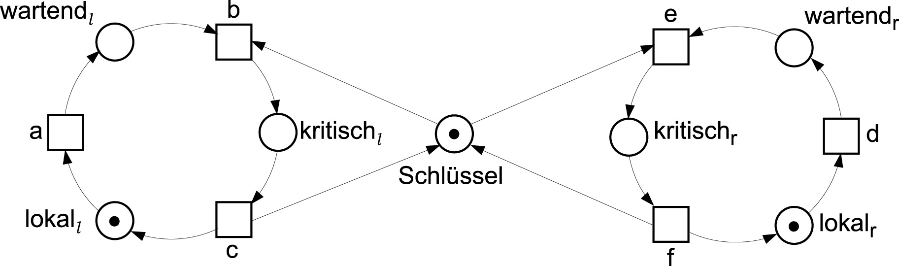 petri net example 5